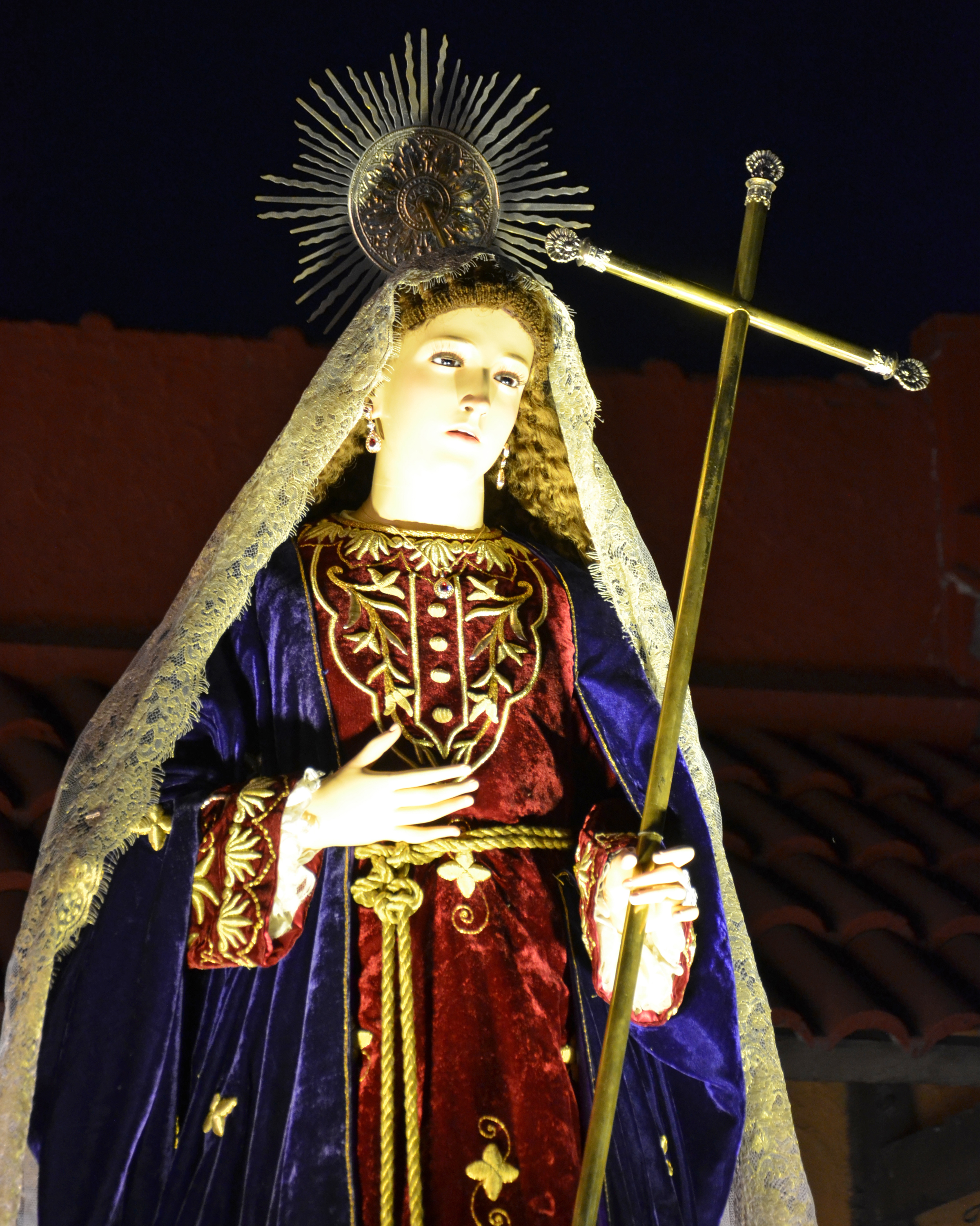 Statue of Saint Martha used during the Easter Sunday Procession at the National Shrine and Parish of Saint Anne in Hagonoy, Bulacan, Philippines Tagalog: Imahe ni Santa Marta na ginagamit sa mga prusisyon ng Linggo ng Pagkabuhay sa Pambansang Dambana at Parokya ni Santa Ana sa Hagonoy, Bulacan, Philippines